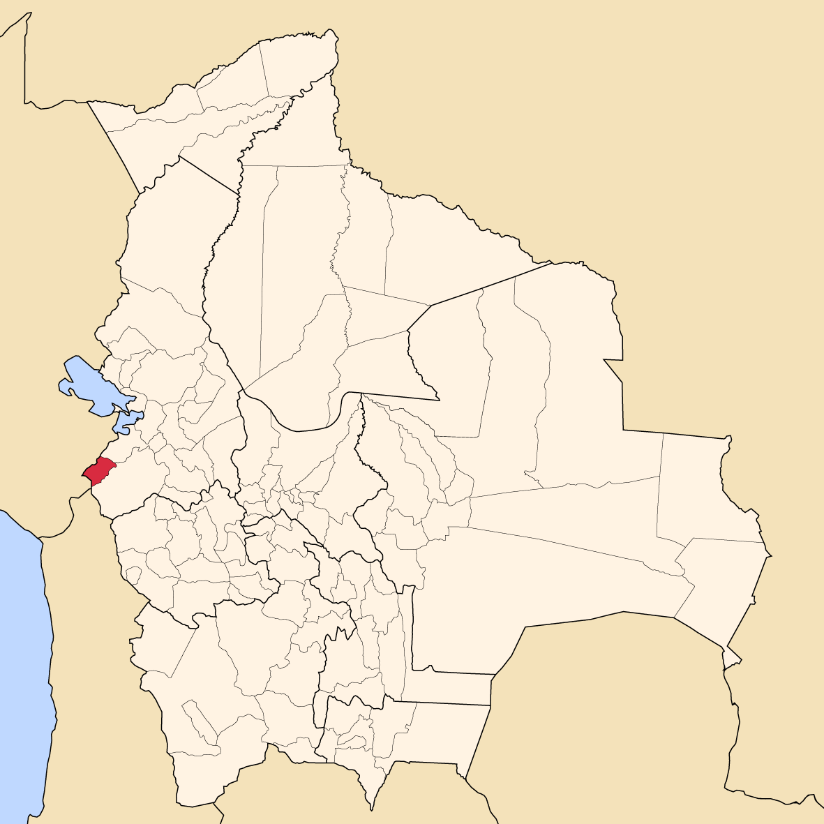 Map of Bolivia showing José Manuel Pando province, La Paz